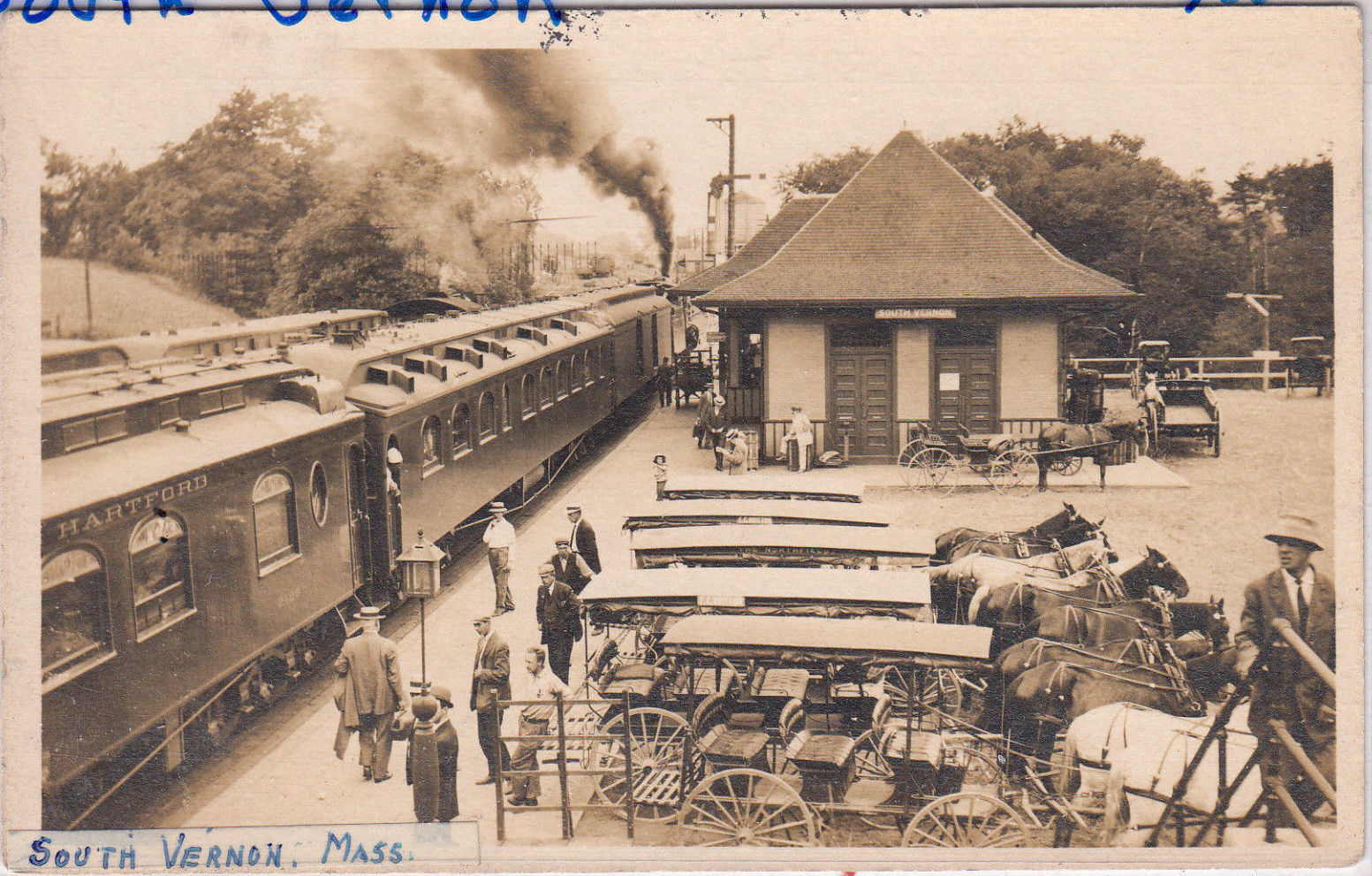 Early divided back postcard of South Vernon station in Northfield, Massachusetts, just feet from the Vermont border. Contemporary maps disagree over the location of the state line, but modern maps show the station to have been in Massachusetts.